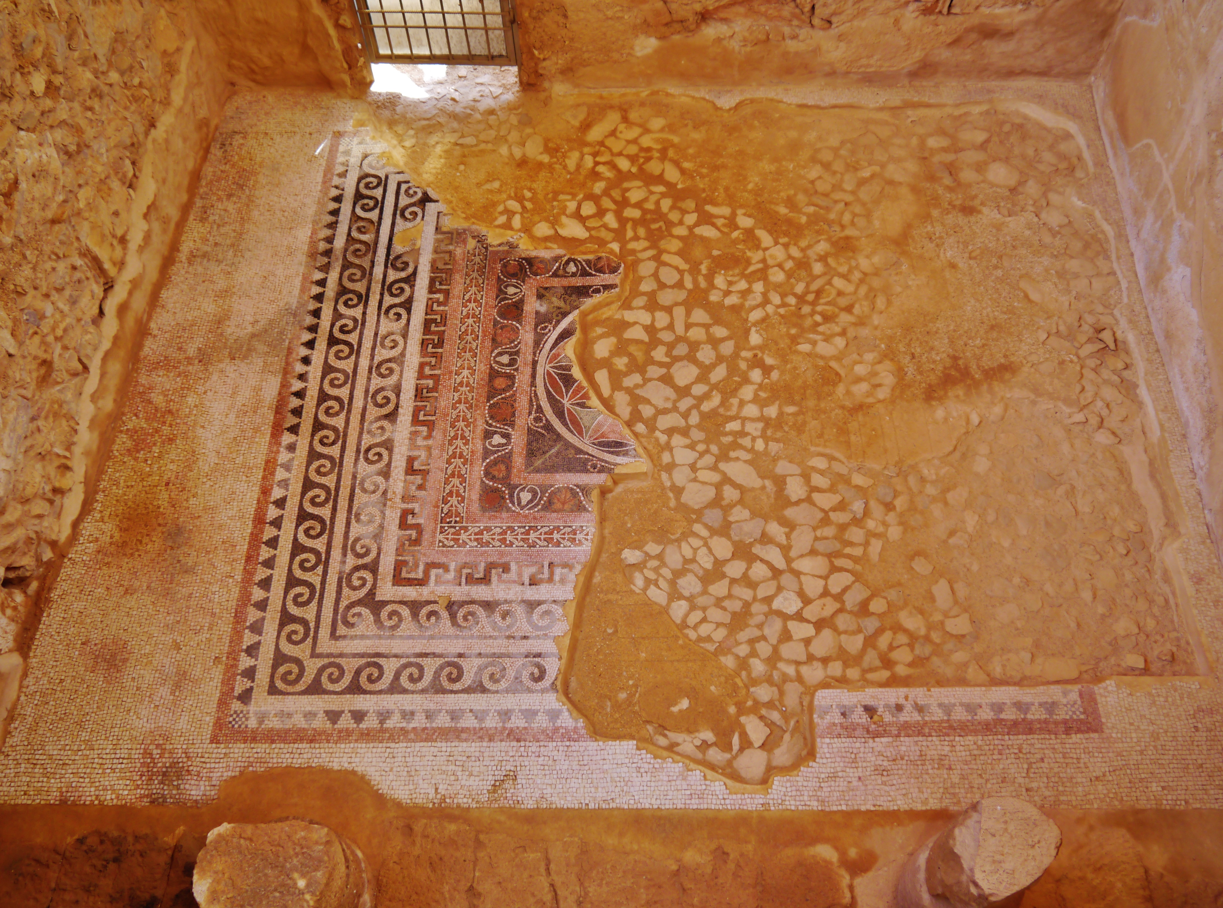 Dwelling House at Masada, Israel